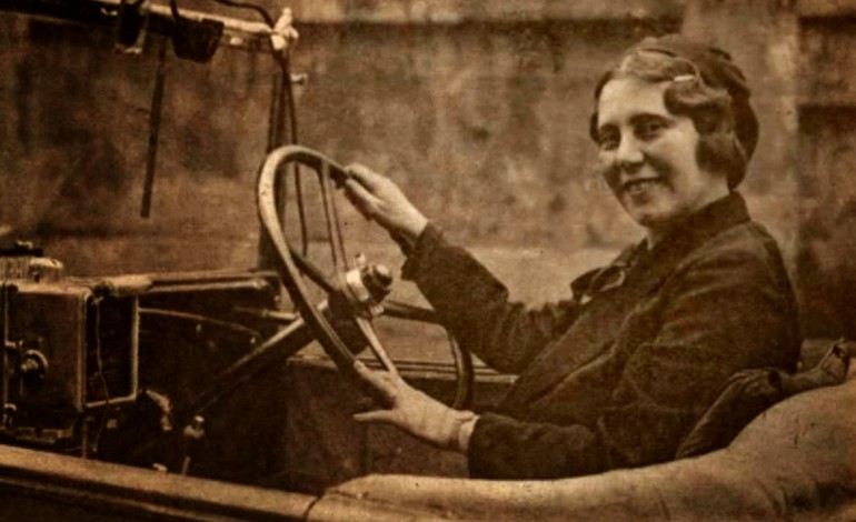 Elena Meissner also called Elena Buznea-Meissner, (born Elena Buznea; 1867–1940) was a Romanian feminist and suffragist. guess 1910?